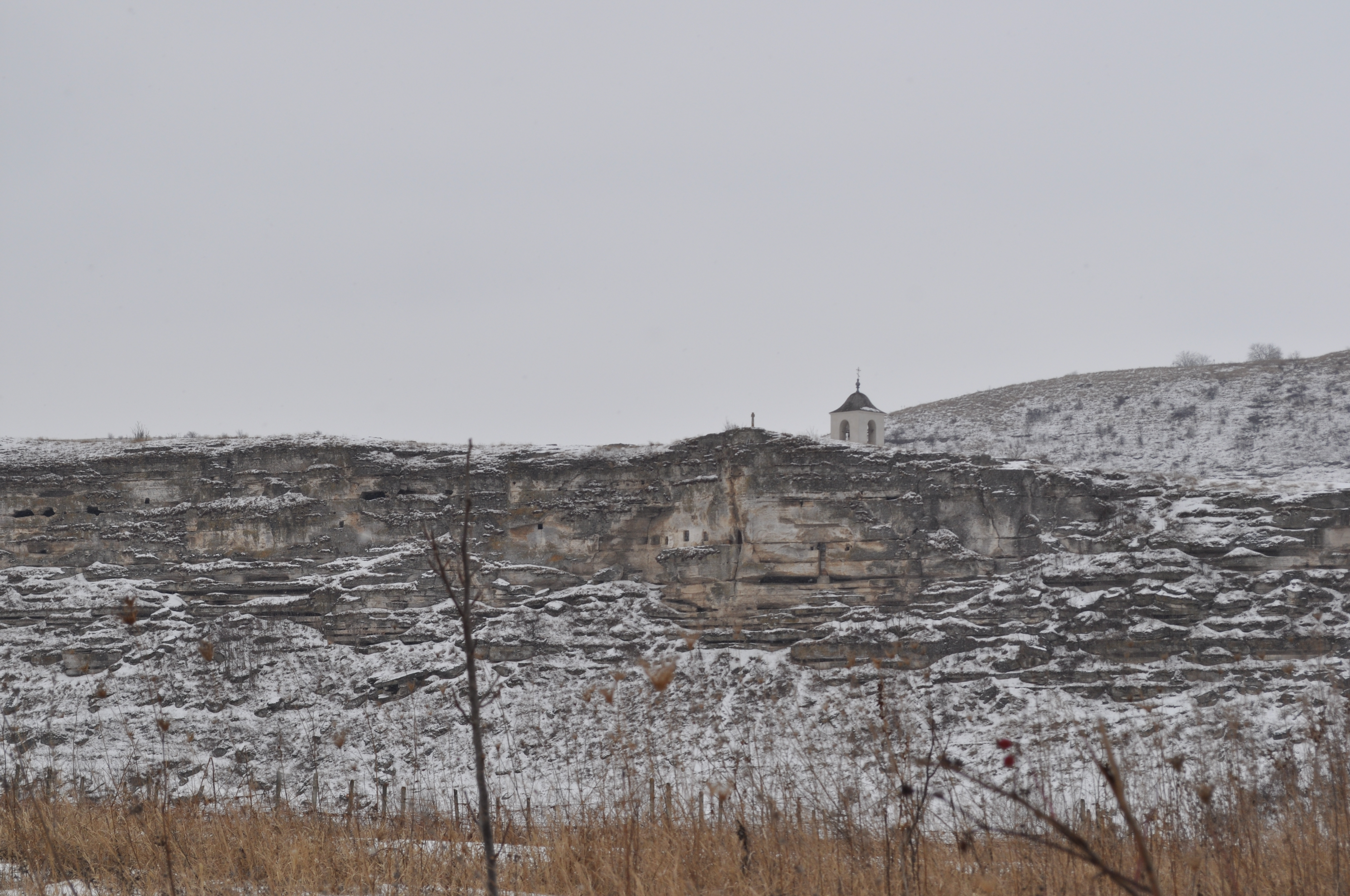 Old Orhei, Moldova